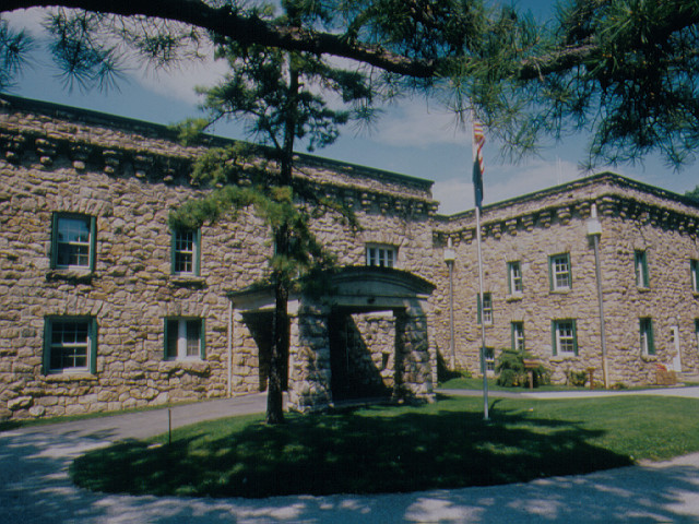 Kings Gap Mansion at Kings Gap Environmental Education and Training Center in in Cumberland County, Pennsylvania, USA.